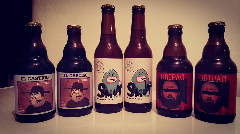 Proizvodi Pivarske zadruge Šerpasi